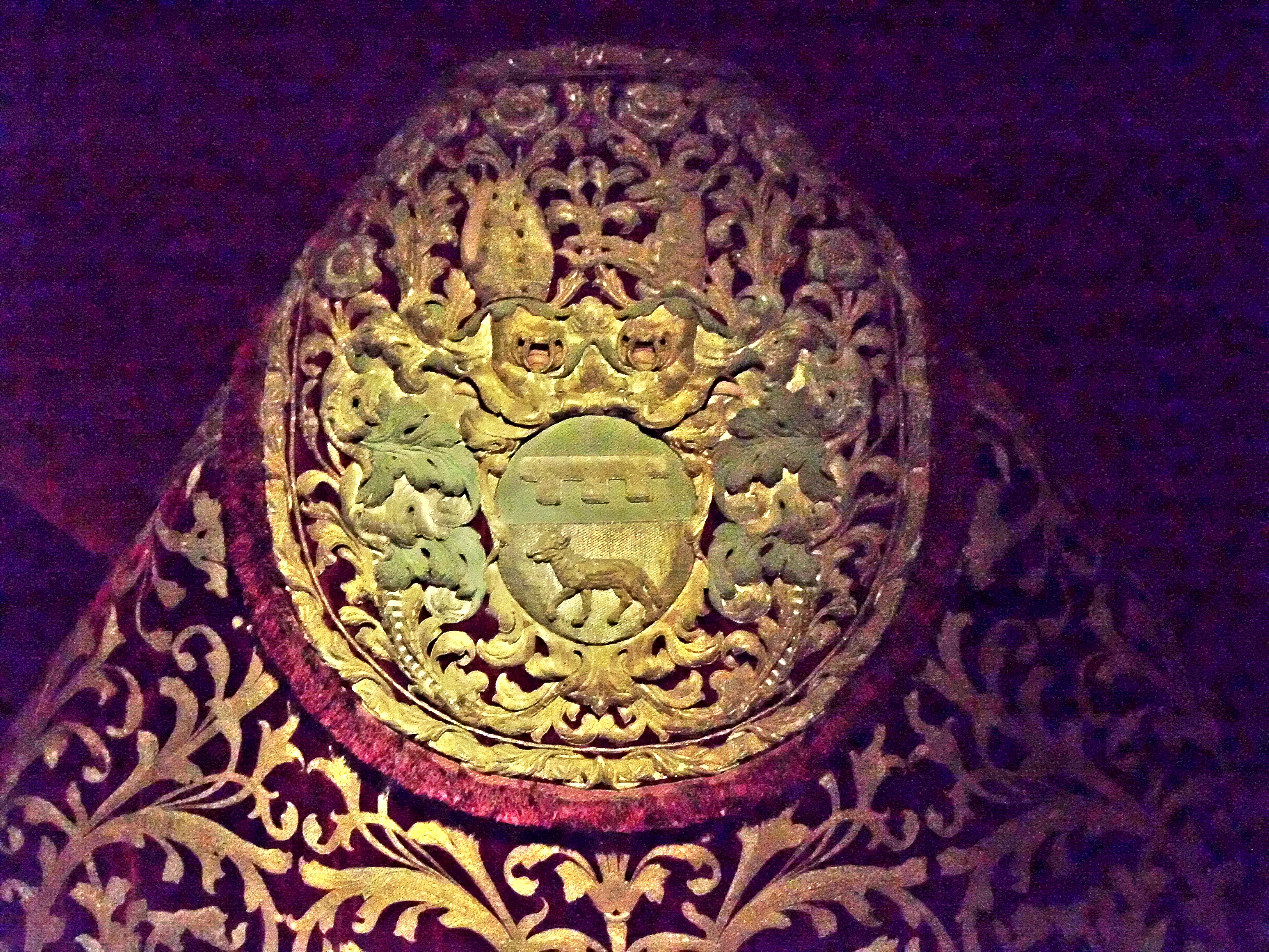 Pluviale des Mainzer Dompropstes Johann Wilhelm Wolff von Metternich zur Gracht (1624-1694), im Speyerer Domschatz, Historisches Museum der Pfalz, Speyer